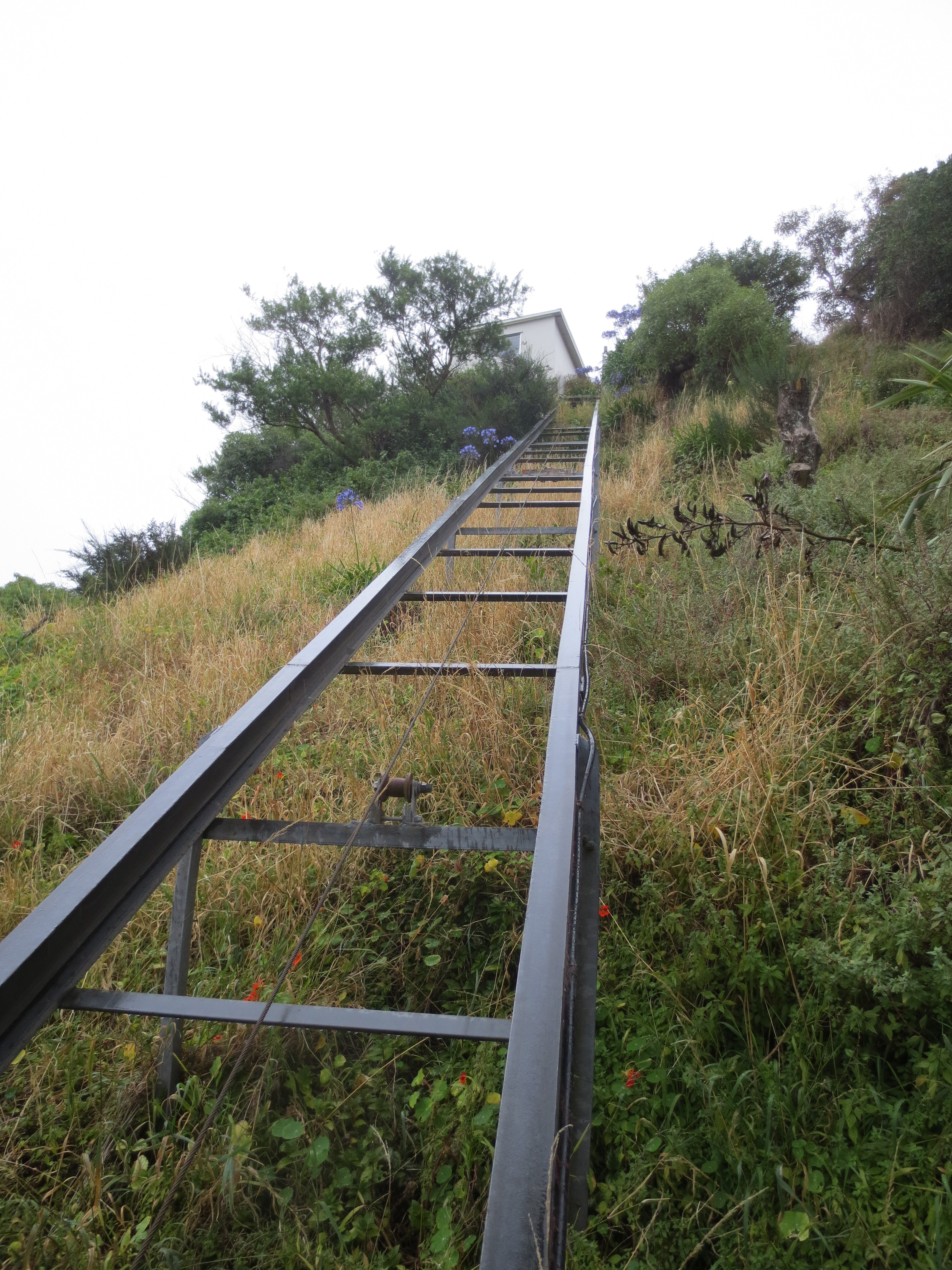 Funicular Track (view from lower terminus) For transporting people and goods to a private house in Wellington